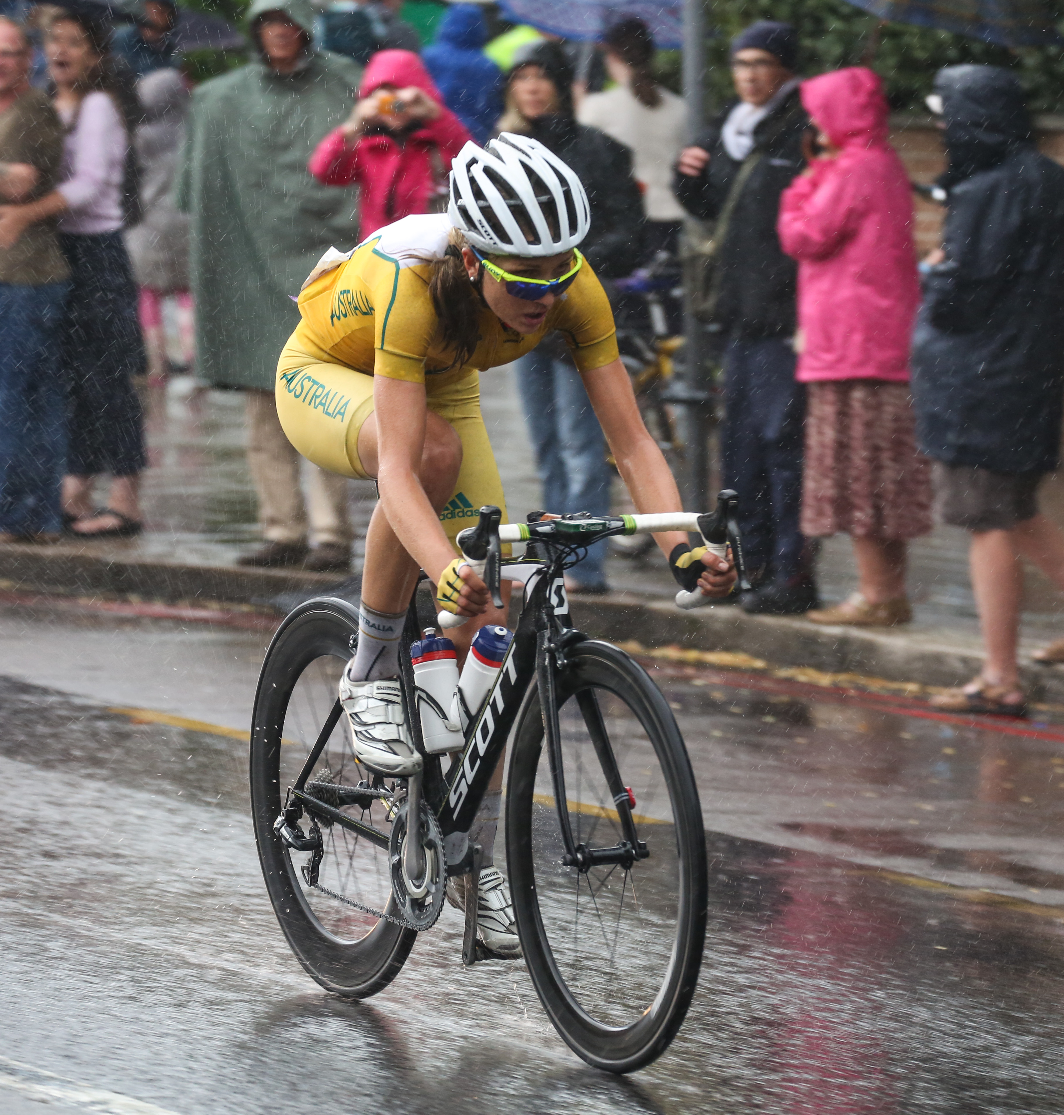 Shara Gillow of Australia cycling along Upper Richmond Rd in Southwest London in the Olympic Road Race.